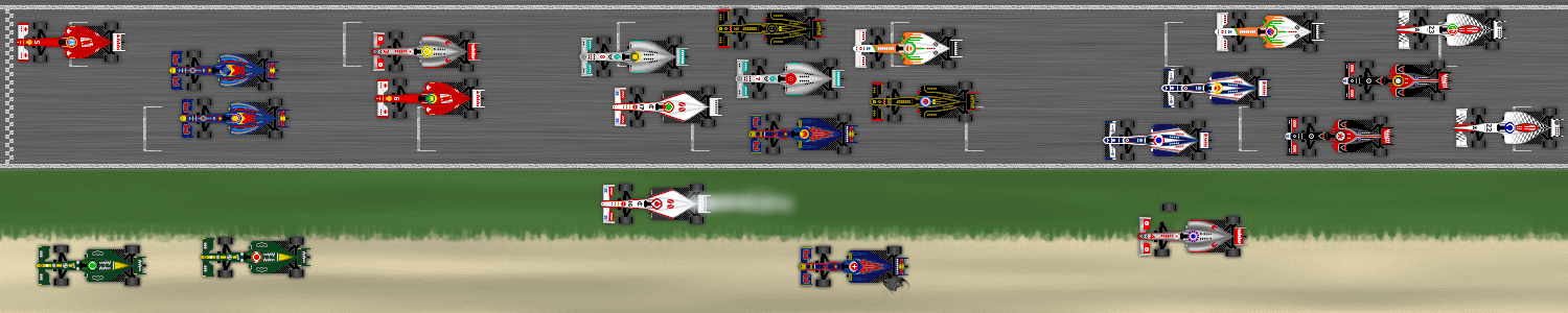 Race result of the 2011 British Grand Prix in Silverstone